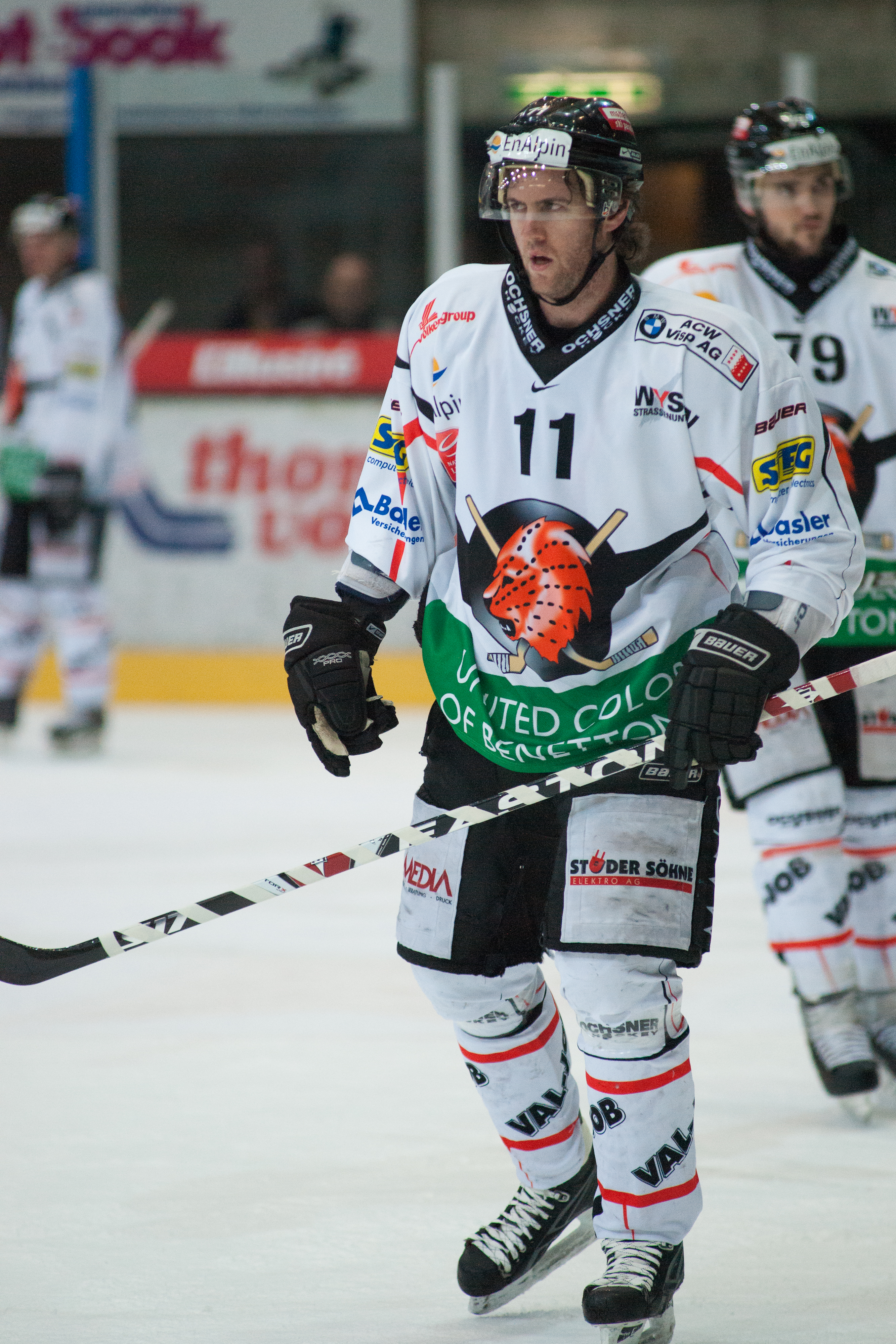 The making of this document was supported by Wikimedia CH. (Submit your project!) For all the files concerned, please see the category Supported by Wikimedia CH.